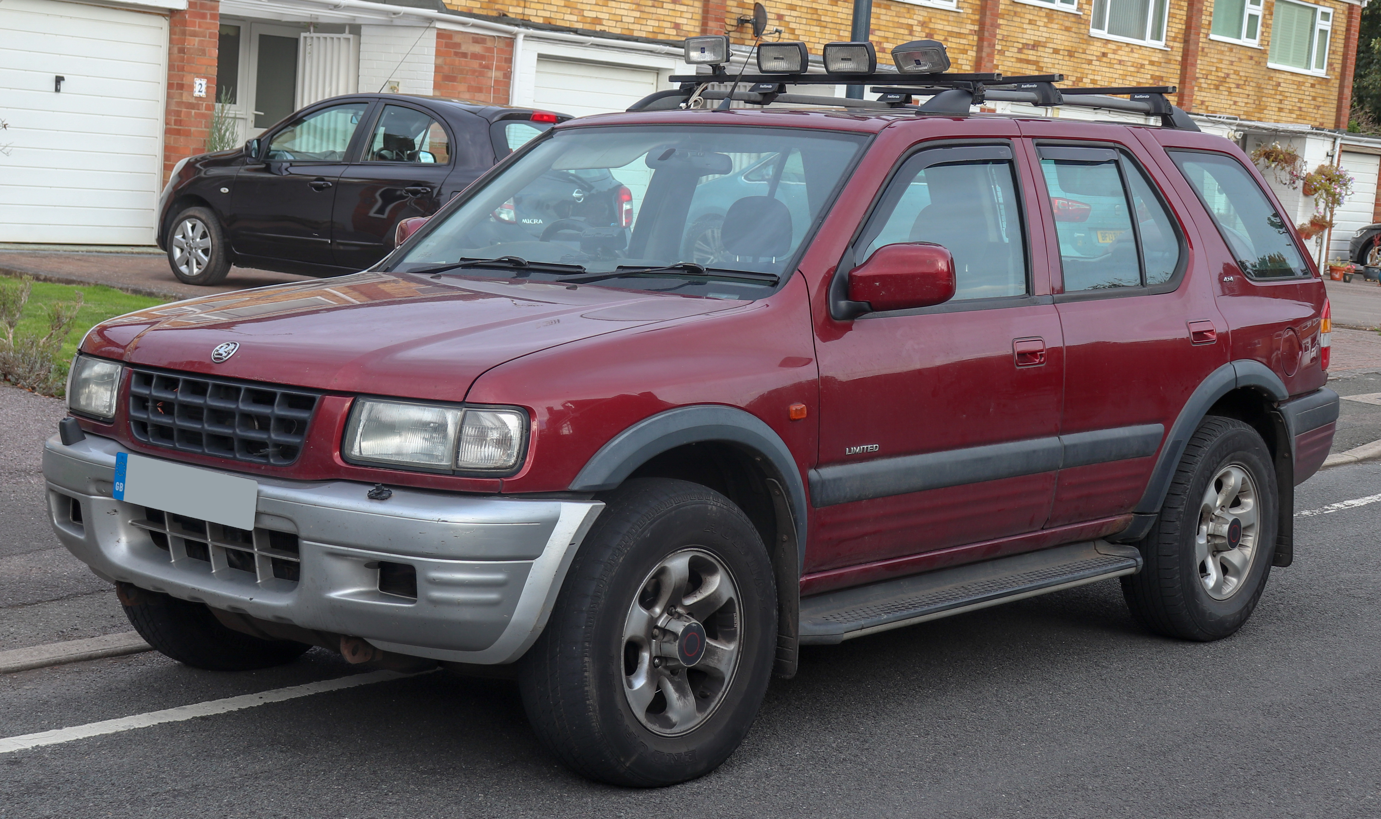 2000 Vauxhall Frontera Limited DTi 2.2 Front Taken in Warwick